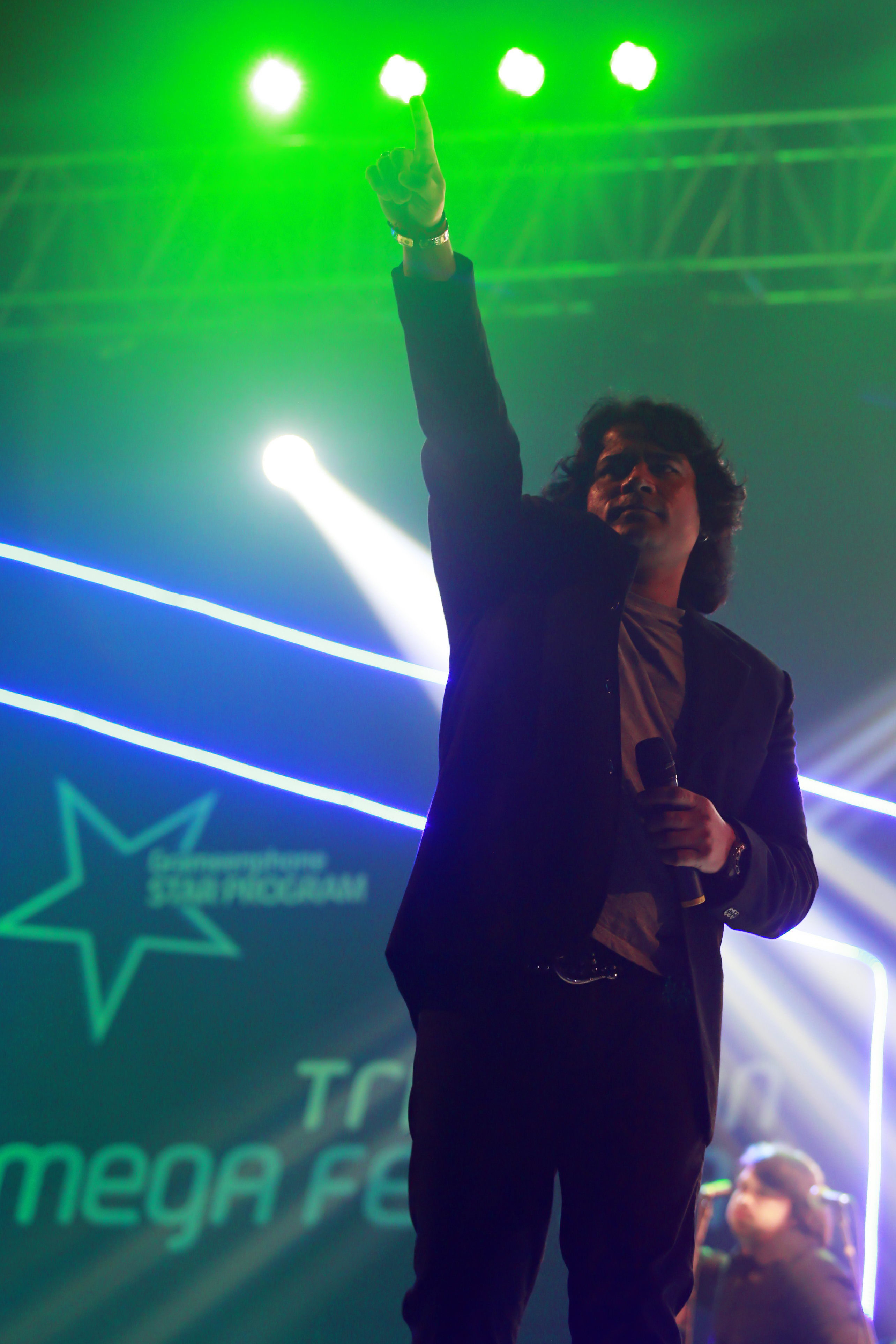 Tri Nation Mega Festival : Shafqat Amanat Ali Khan